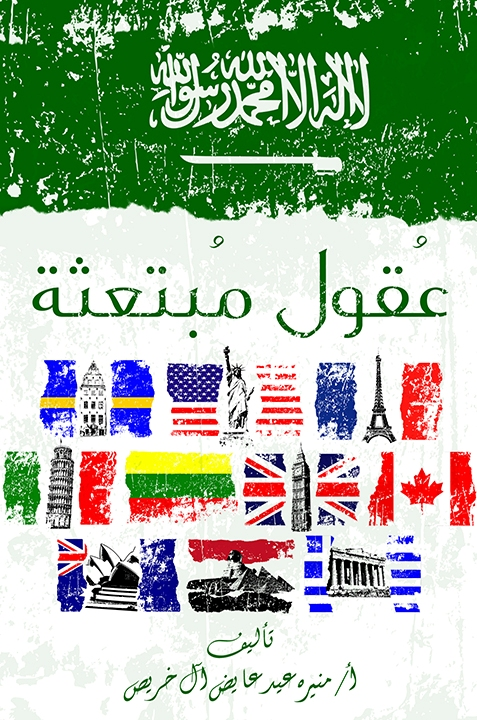 study aboard